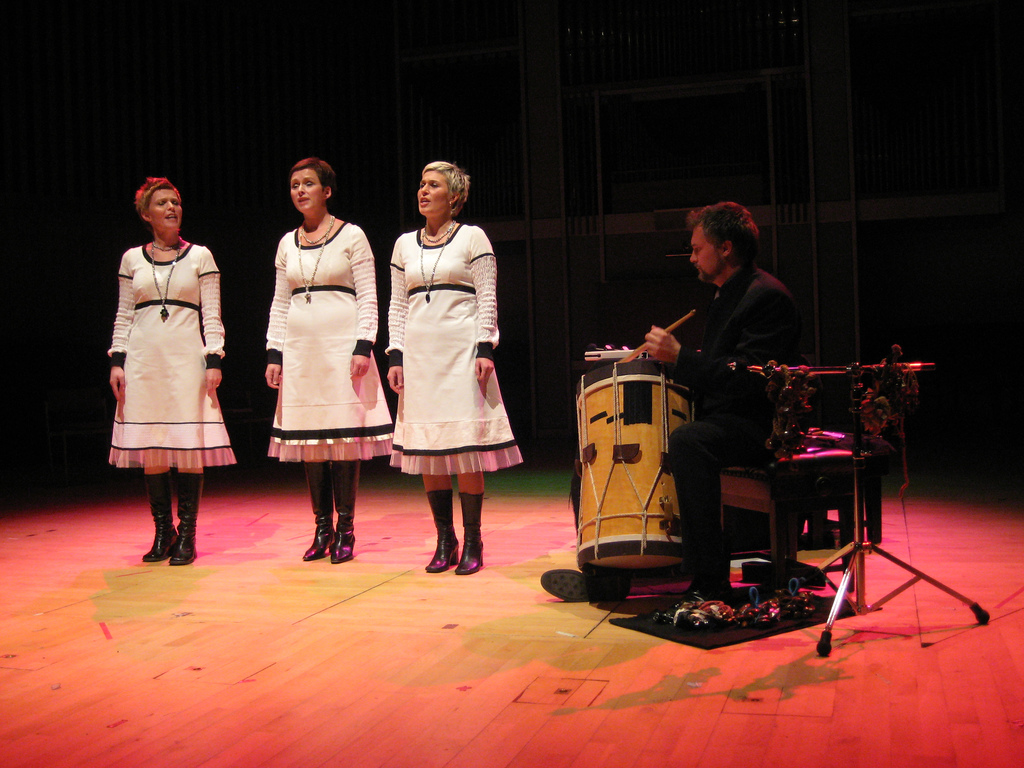 Trio Mediaeval concert at the University of York. From left: Linn Andrea Fuglseth, Torunn Østrem Ossum, Anna Maria Friman. Birger Mistereggen on percussion. Taken with a Canon PowerShot SD750.